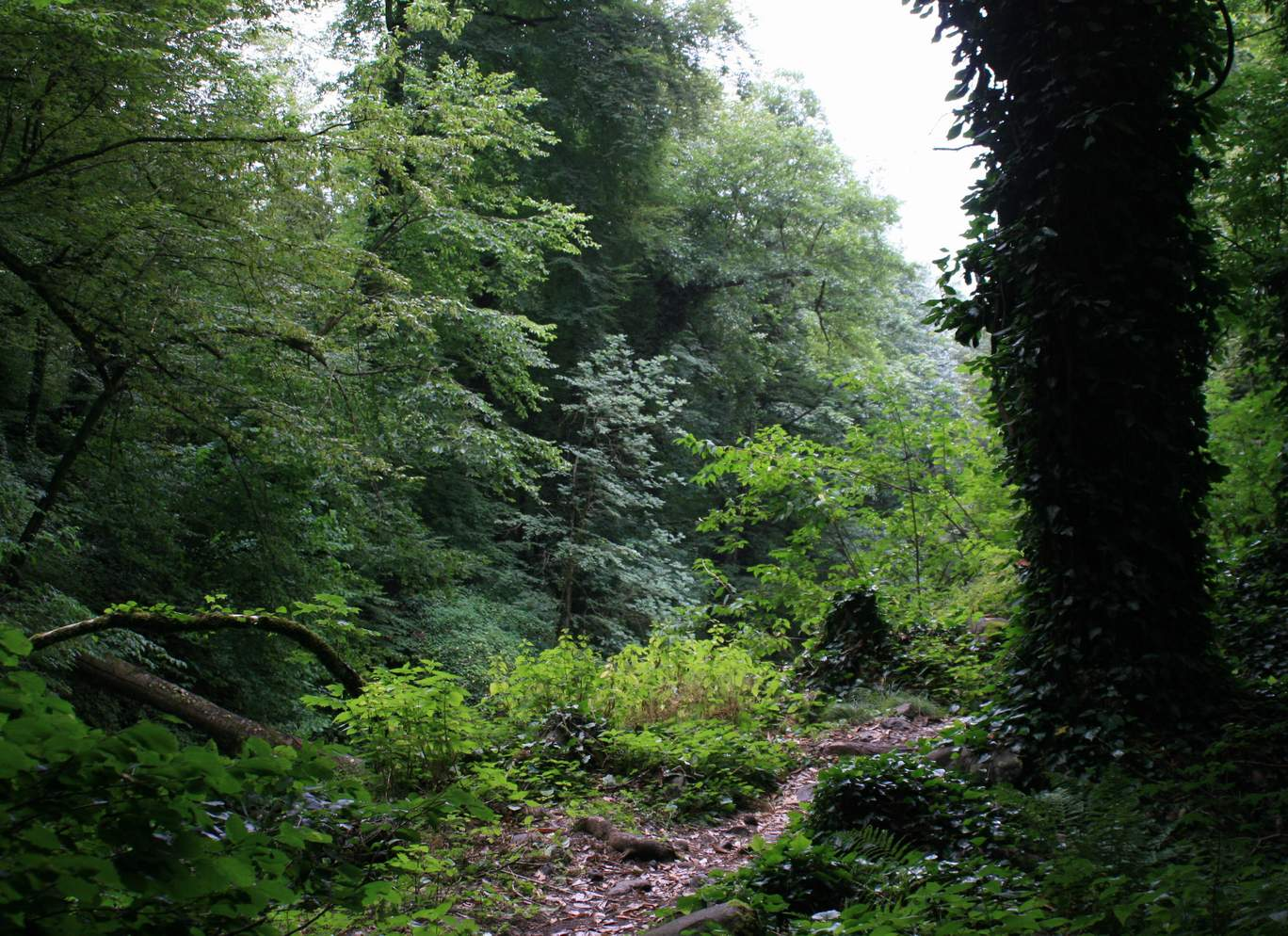 Lagodekhi National Park